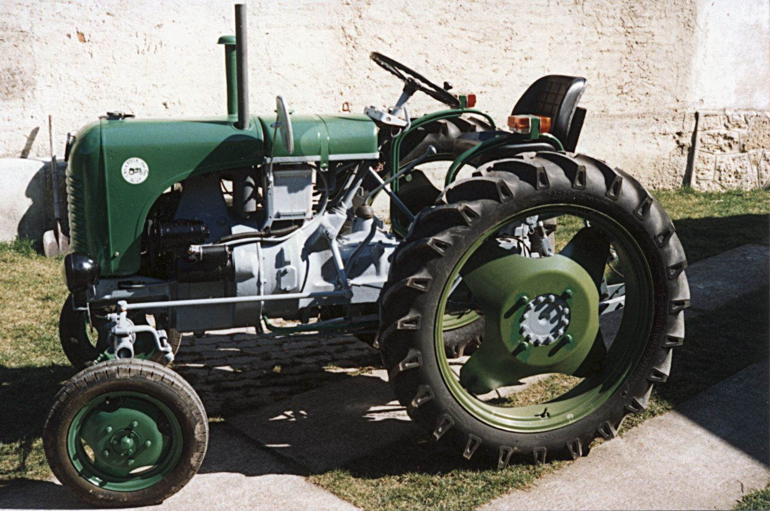 Tractor Steyr 15, 1954, 11.2 kW (15 HP), 1,330 kg, water-cooled four-stroke one piston diesel engine with 1,330 ccm.